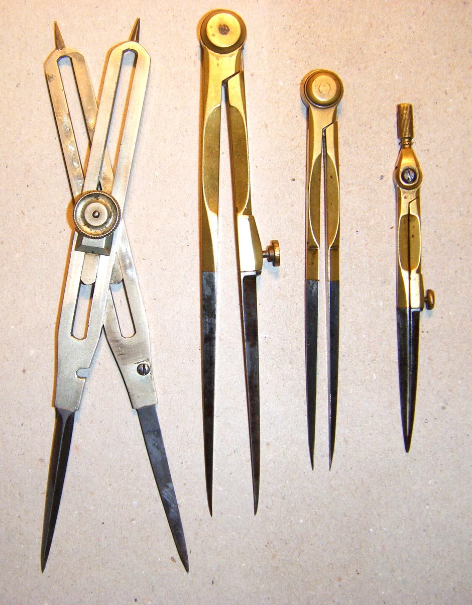 Compasses (drafting)